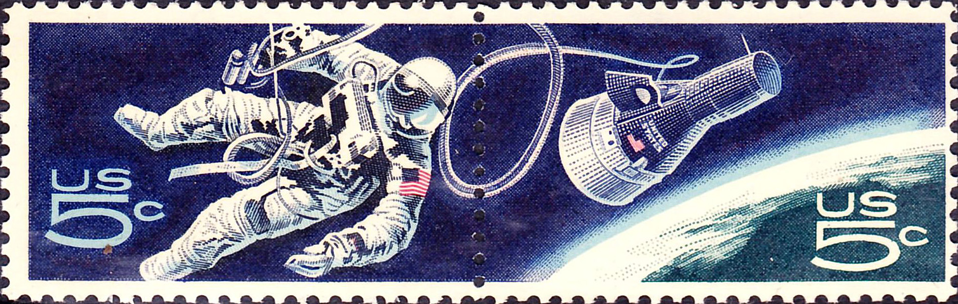 US_Space_Walk_1967_Issue-5c.jpg